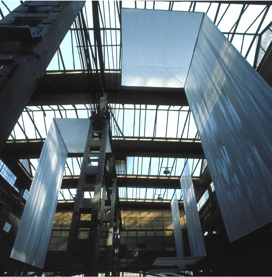 art installation by Bruno Kurz 4